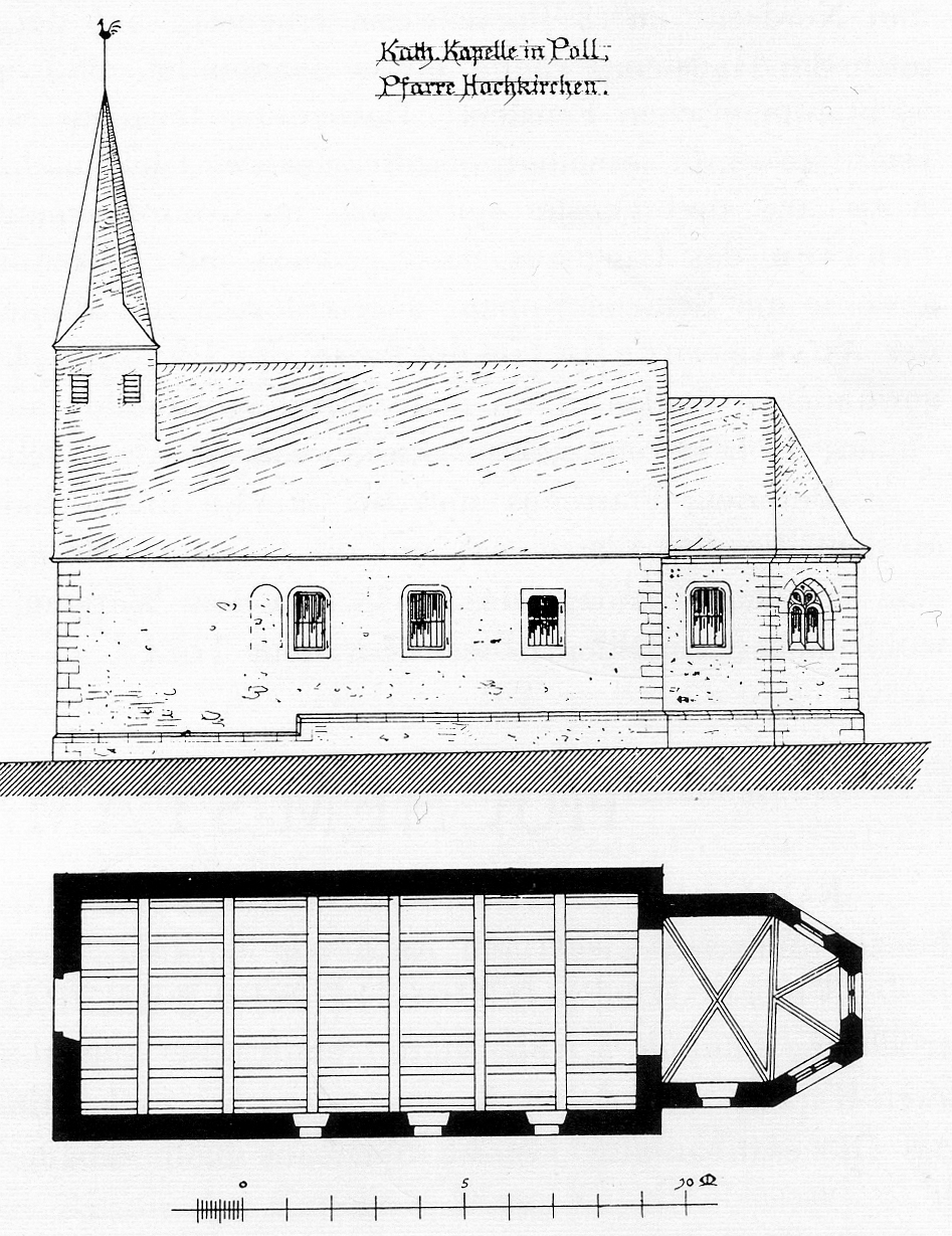 Chappel Saint Peter 15./16th-century, Poll (Nörvbrnich), Germany